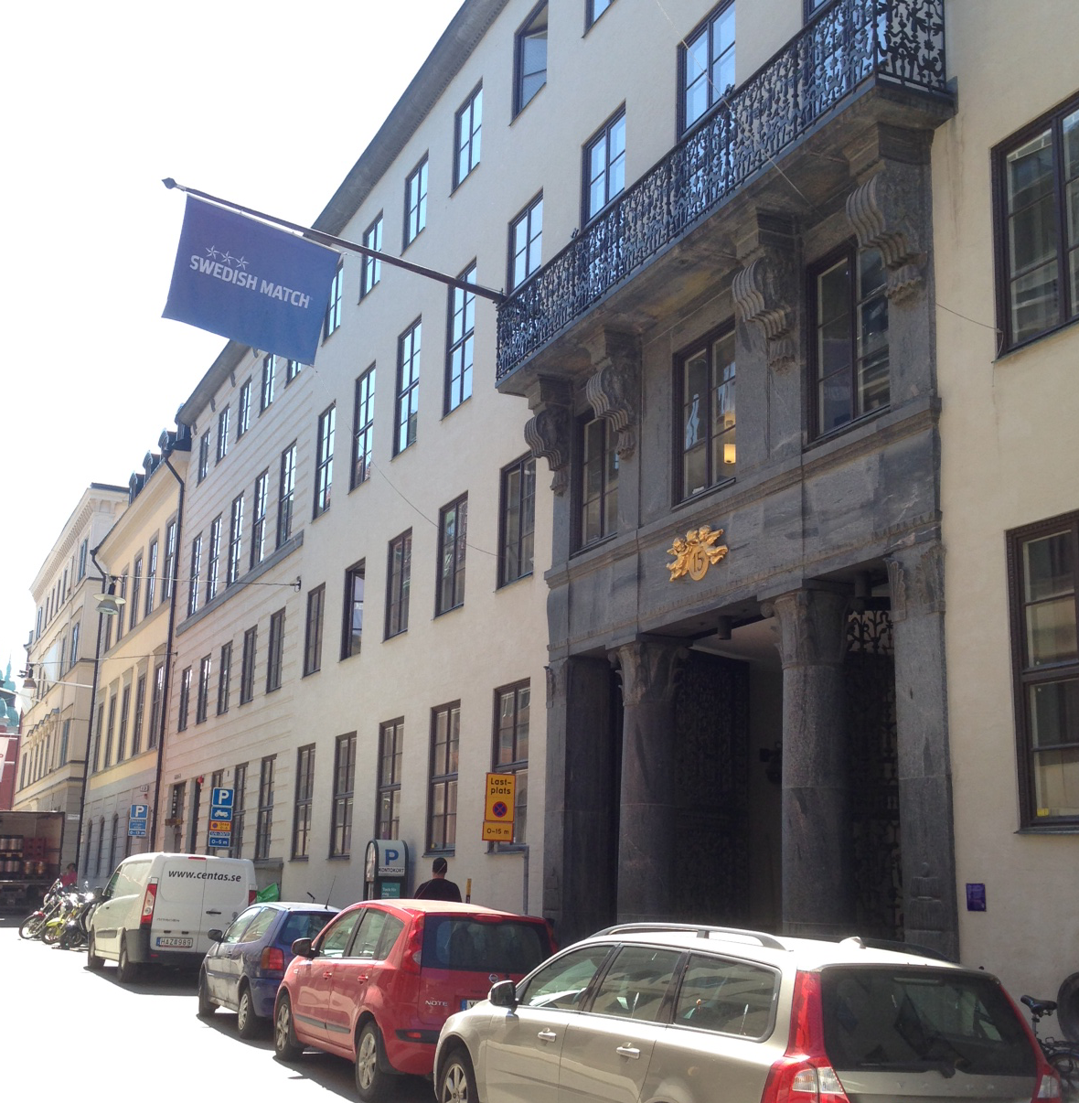 Swedish Match Headquarters in Stockholm, Sweden, street view